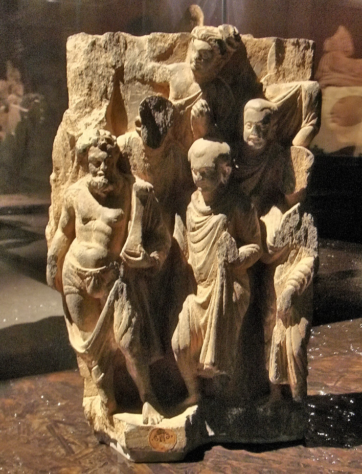 Vajrapani with Buddhist monks. Guimet Museum.